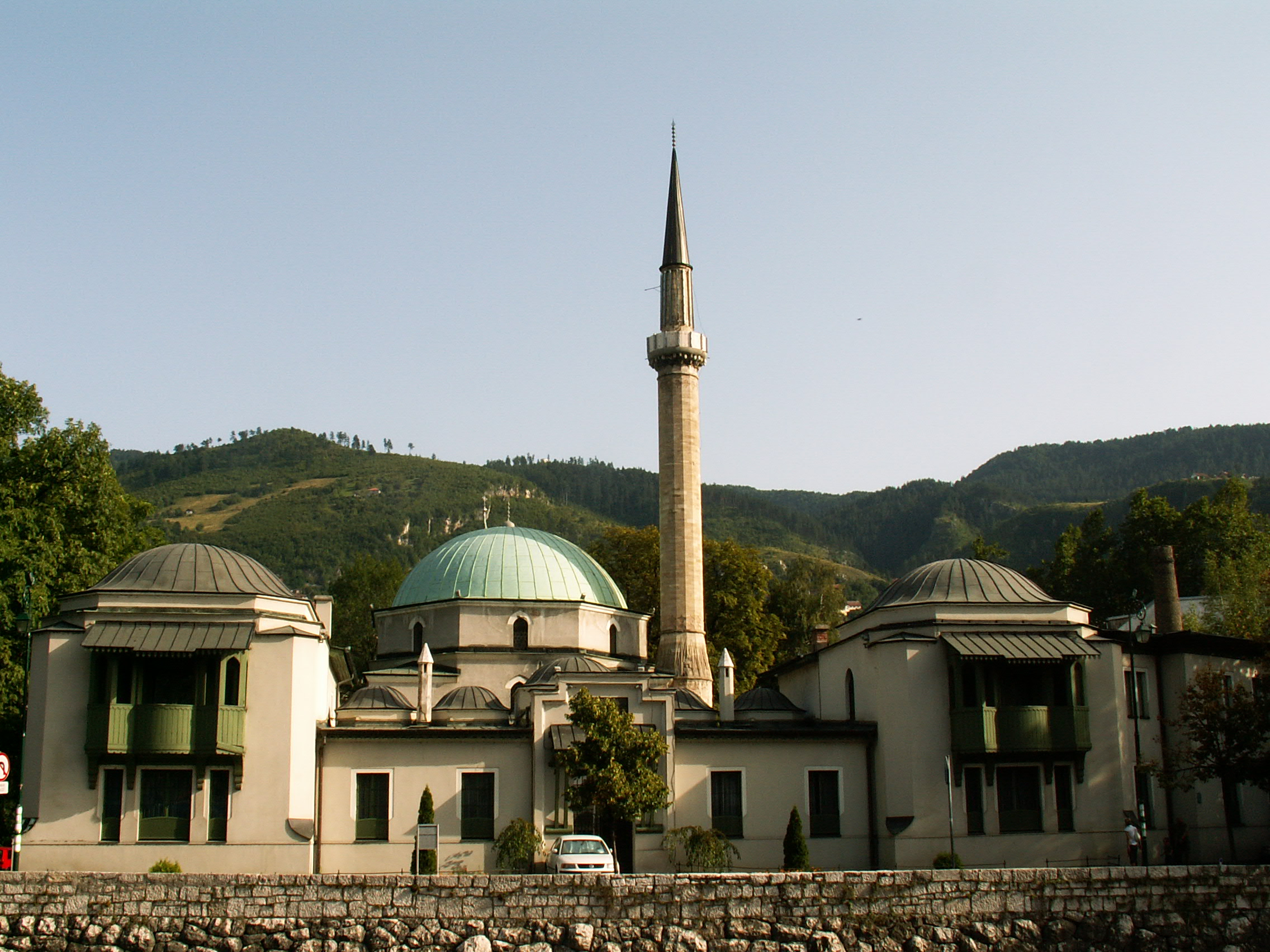 Emperor´s Mosque